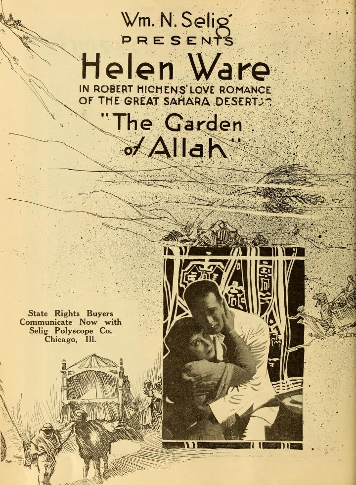 Advertisement in Moving Picture Worldfor the film The Garden of Allah (1916).